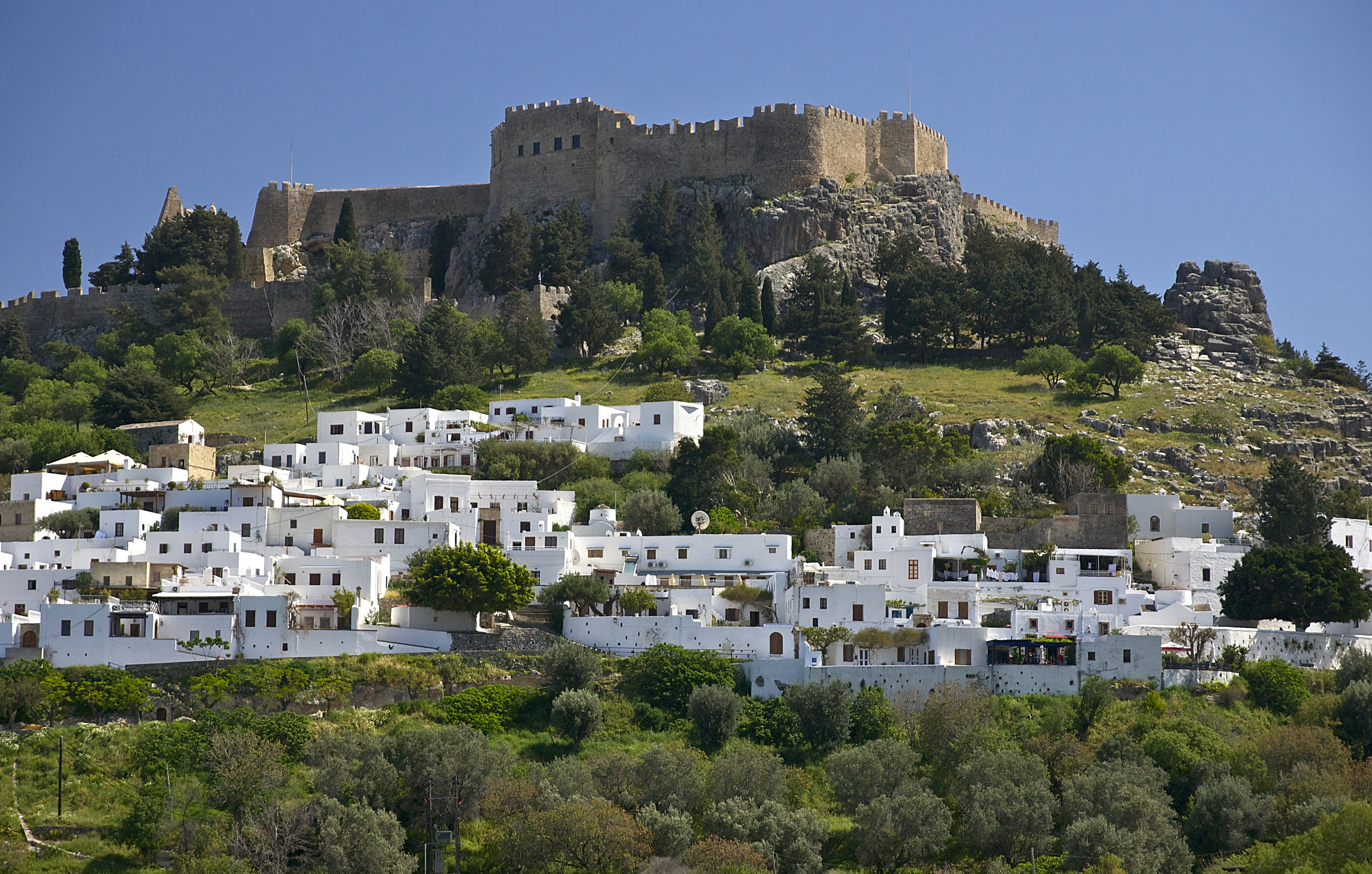 The village and the acropolis of Lindos, island of Rhodes, Greece.